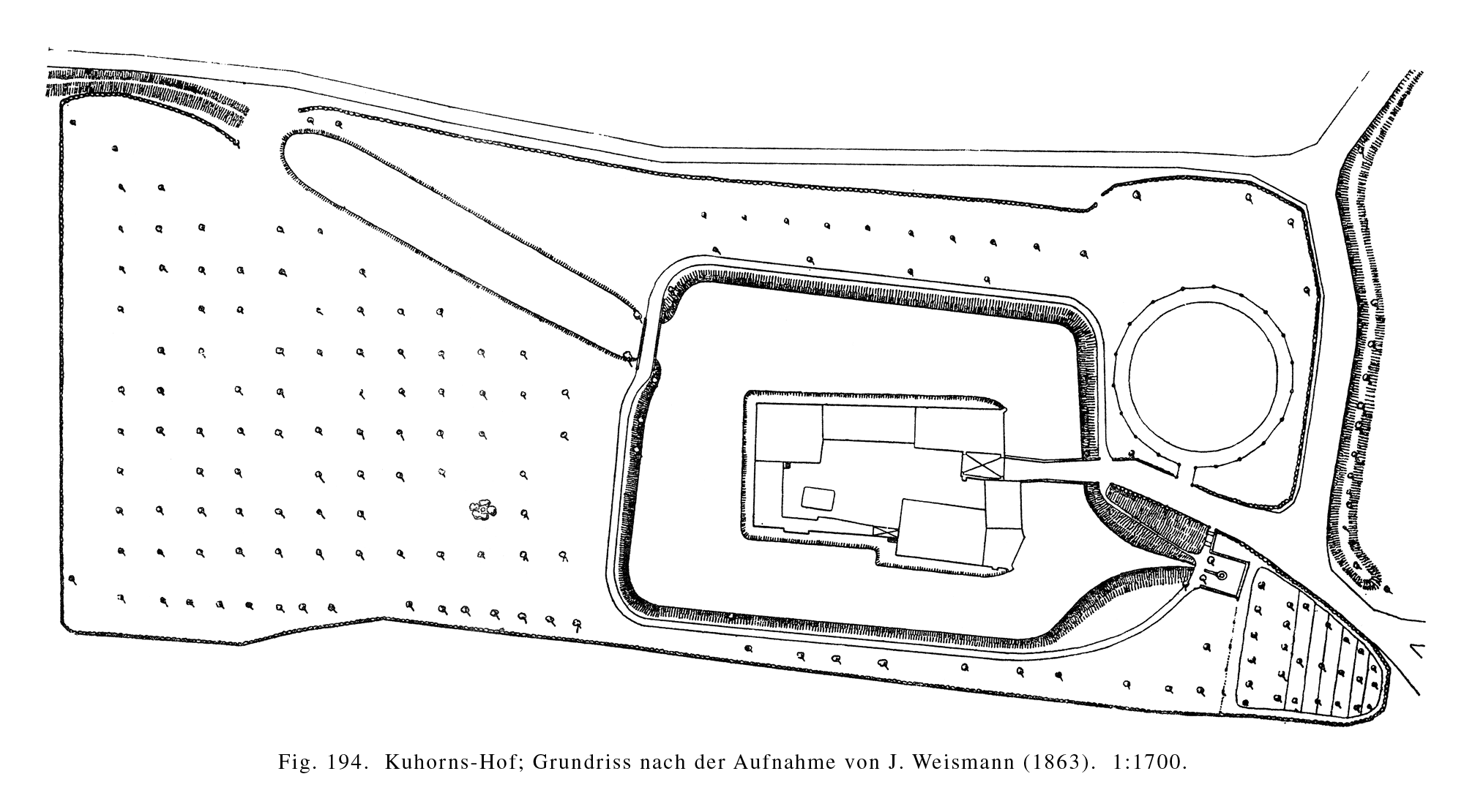 Frankfurt on the Main: Kuehhornshof, floor plan according to the record by J. Weismann